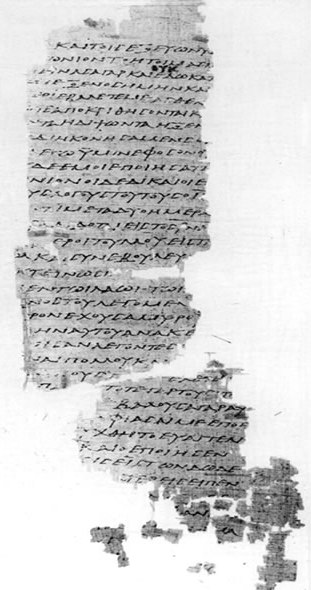 texte de Matthieu 25,41-46